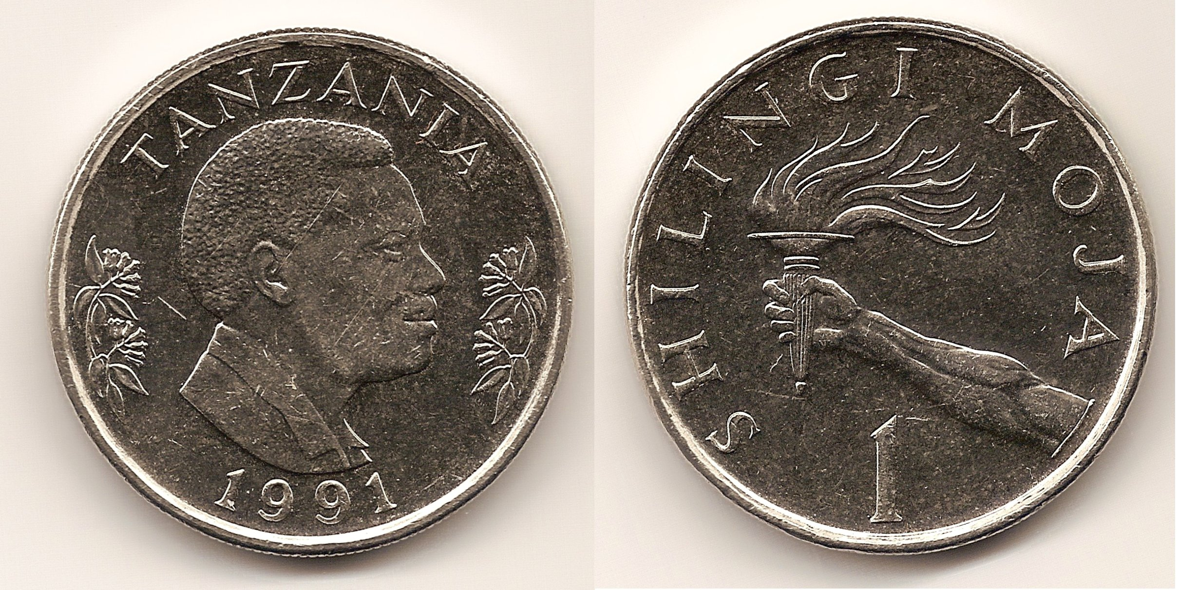 A photograph showing both sides of a Tanzania Shilling Moja.